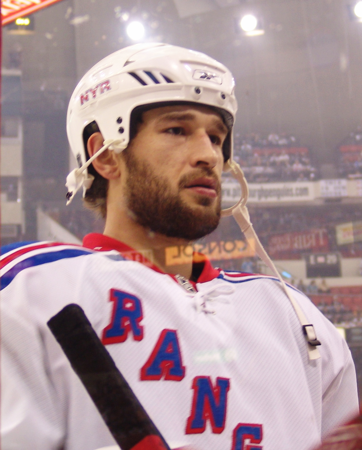 New York Rangers defenseman Fedor Tyutin stops at the bench during the warm-up before a 2008 Stanley Cup Playoff 2nd round game against the Pittsburgh Penguins at Mellon Arena in Pittsburgh, PA. May 4, 2008.